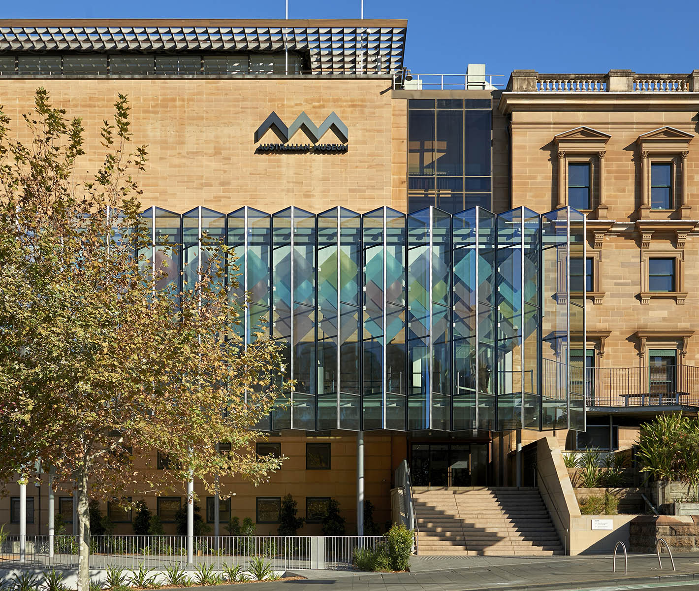 The exterior and Crystal Hall entry to the Australian Museum in Spring 2016.